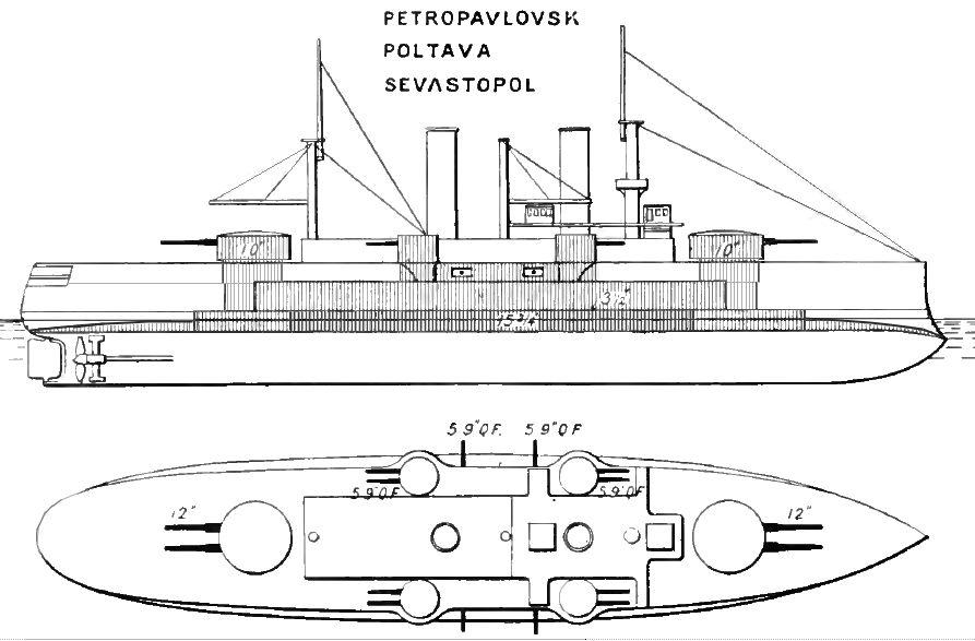 Sketch of the Russian battleships Poltava class - corrected armour scheme according to S.Suliga: Корабли Русско – Японской войны. Часть 1. Российский флот.